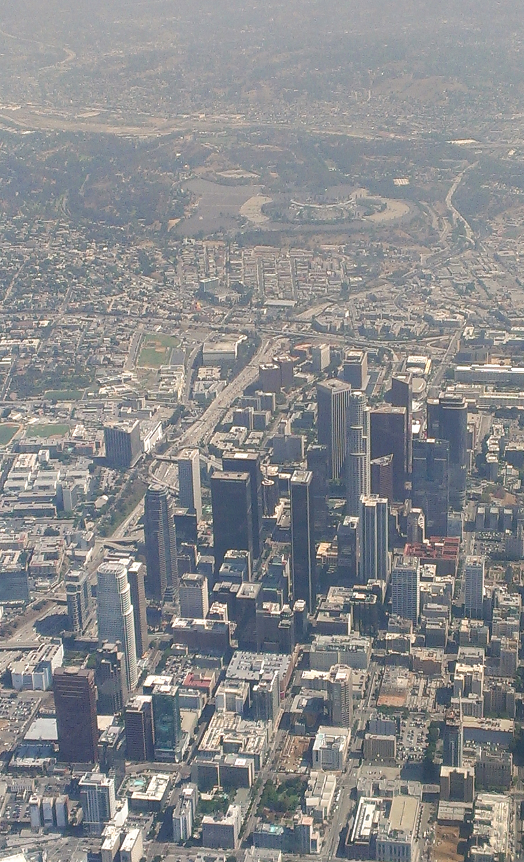 Downtown Los Angeles. Dodger Stadium at top.